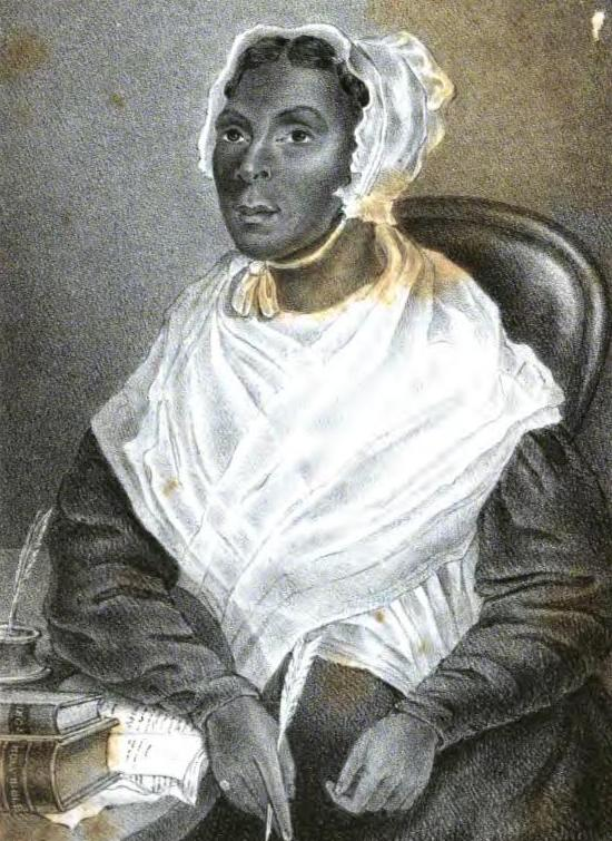 Jarena Lee (February 11, 1783 – 1836); frontispiece of Religious experience and journal of Mrs. Jarena Lee, giving an account of her call to preach the gospel (1849)